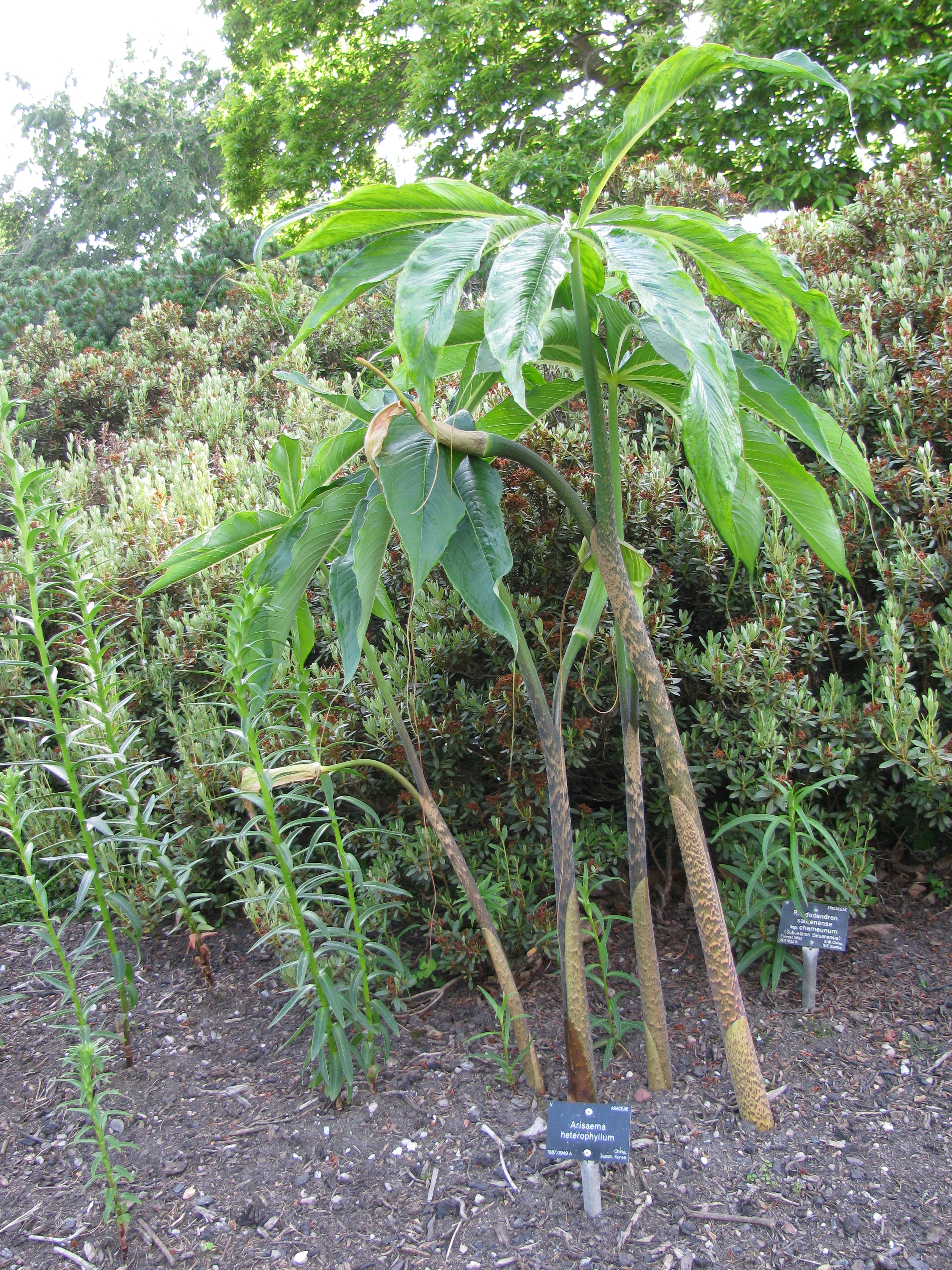 Dancing Crane Cobra Lily Royal Botanic Garden Edinburgh: Accession number 1987.0949 A